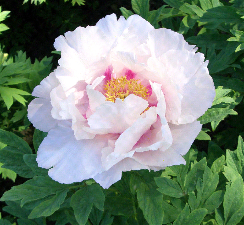 Paeonia suffruticosa (pale pink)